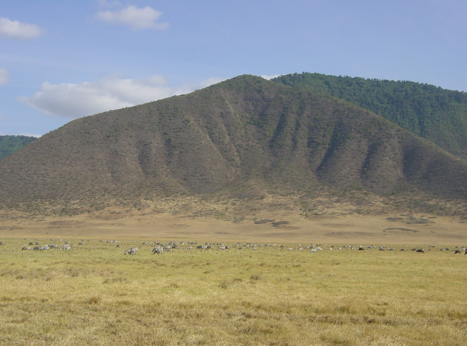 Zebras and gnus in Ngorongoro Crater